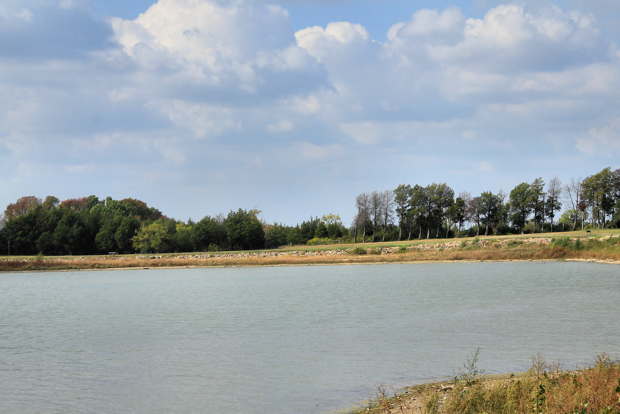 The Civilian Conservation Corps (CCC) built dam that impounds Bonham State Park Lake, Fannin County, Texas, United States.